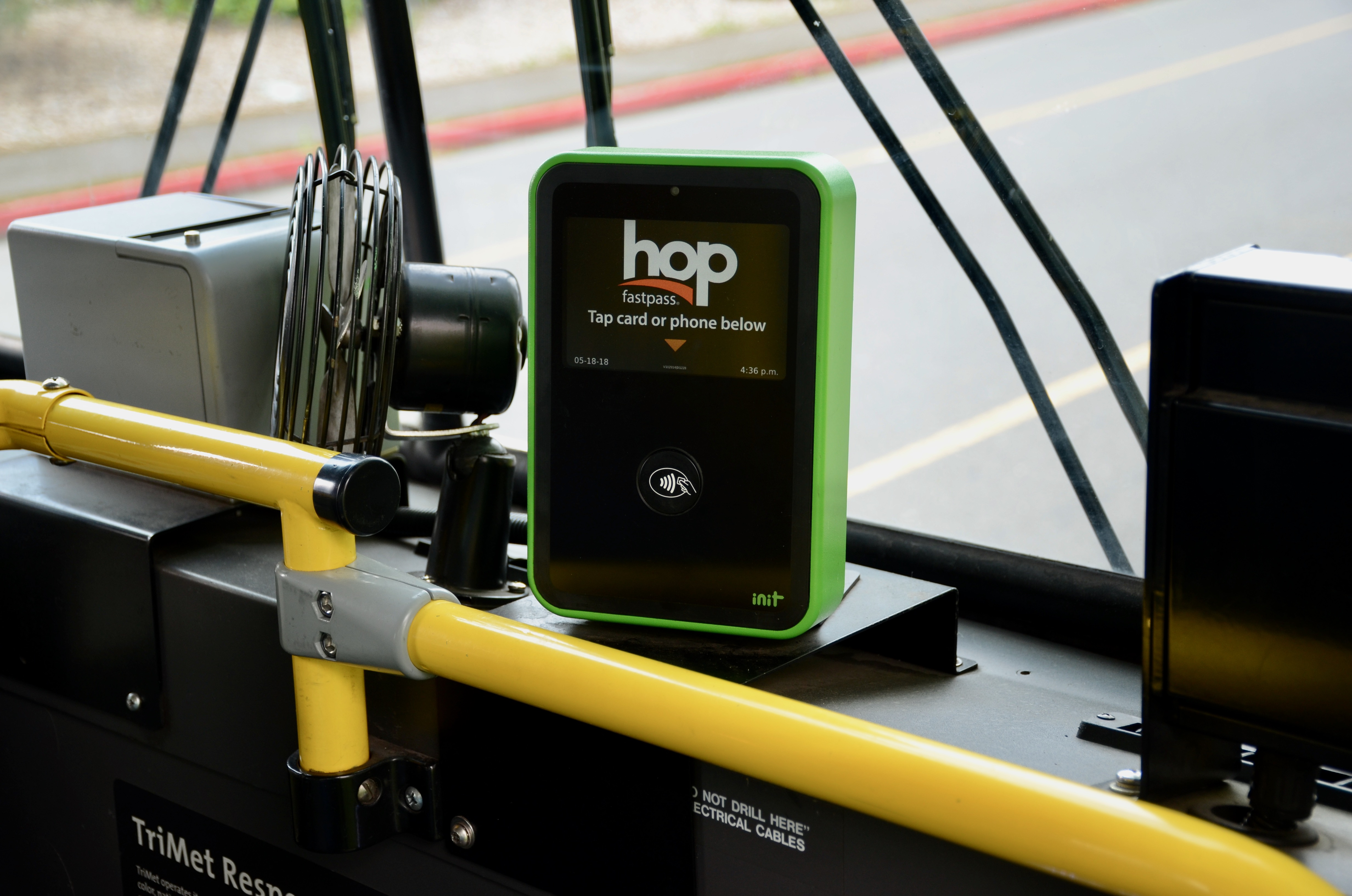 A Hop Fastpass tap-card reader mounted inside a TriMet bus, near the front door.